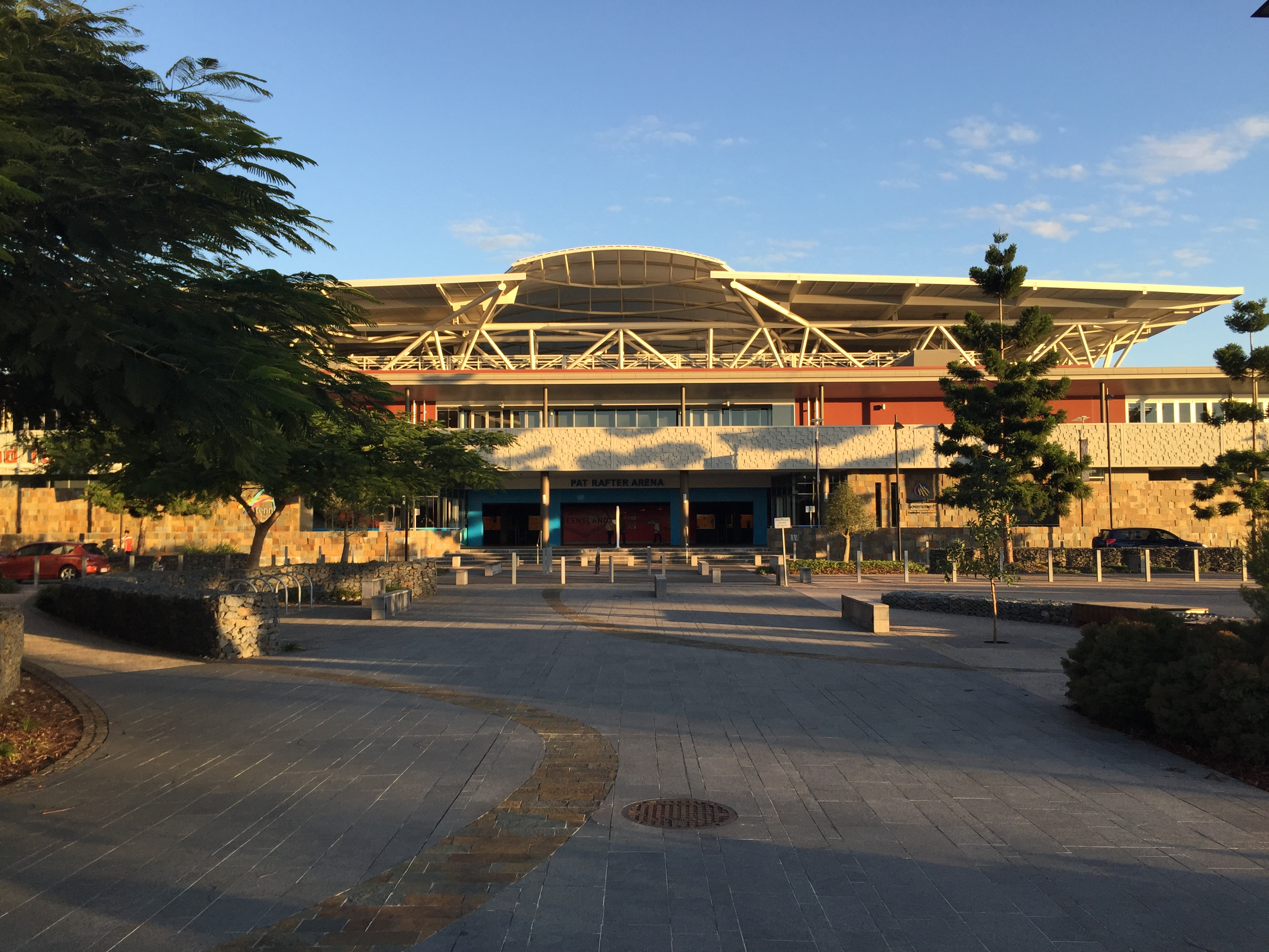 Pat Rafter Arena, Queensland Tennis Centre, July 2015